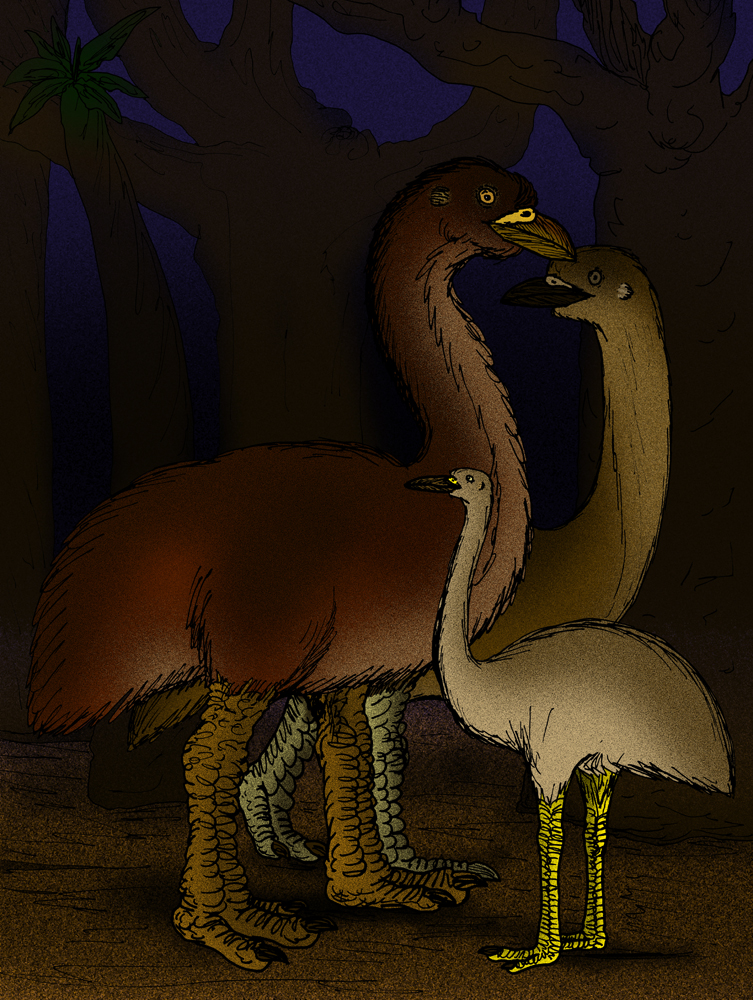 Comparison of the aepyornthids, Mullerornis (front), Vorombe titan (largest), and Aepyornis (back), of Holocene Madagascar.